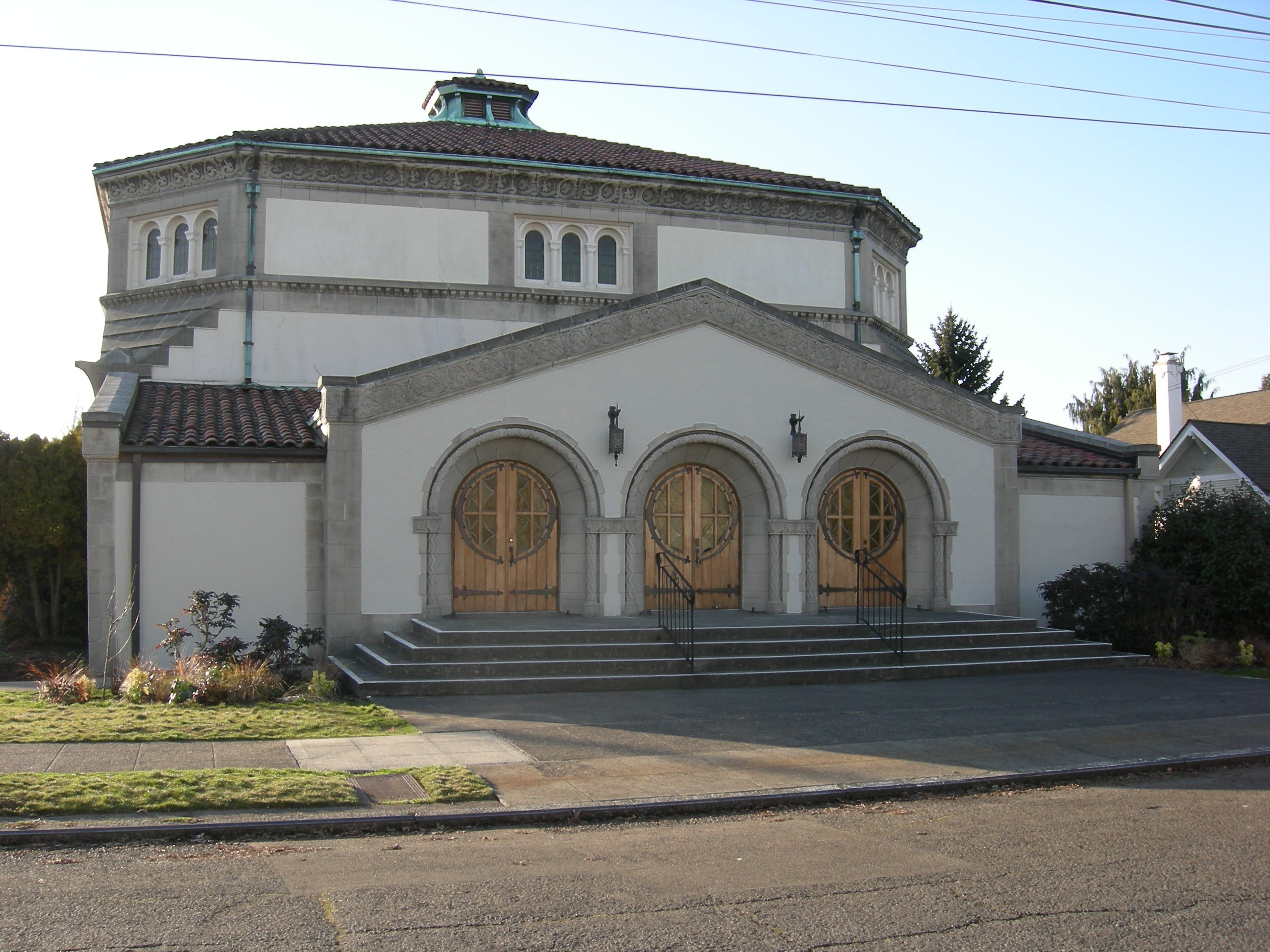 The 7th Church of Christ Scientist, corner of W Halladay Street and 8th Ave W, on Queen Anne Hill, Seattle, Washington was sold in 2007, and will be used by the Church of Christ. Built 1926; architect: Harlan Thomas. Page on church from Queen Anne Historical Society Page on church from Seattle Department of Neighborhoods